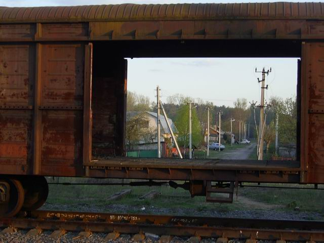 View of Snezhetskaya railway station near Bryansk city.